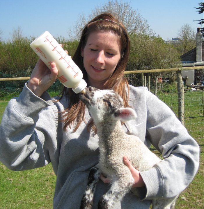 Bottle feeding an orphan lamb